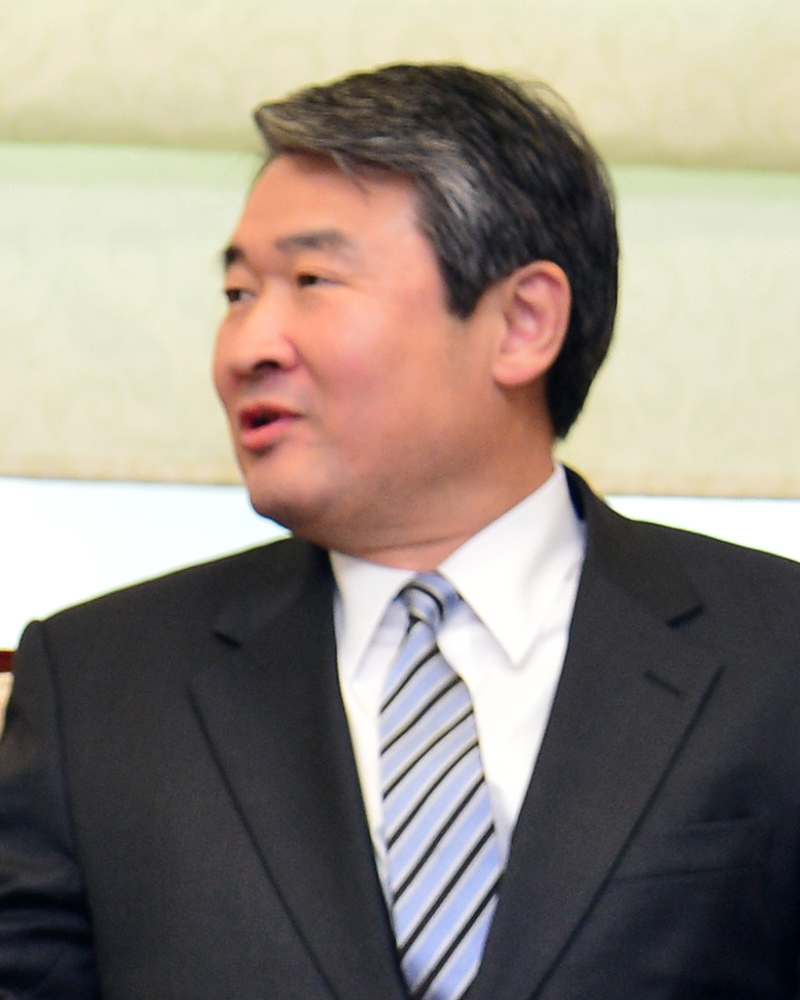 A/S Russel meets with ROK 1st Vice FM Cho Tae-yong